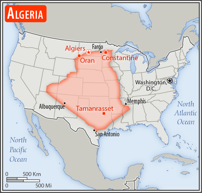 Comparison of the areas of two country. The area of Algeria with biggest cities (red) overlay the area of the United States of America (gray background).